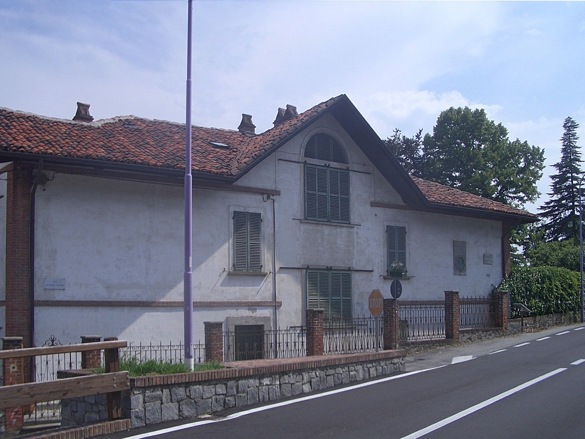 Colleretto Giacosa, the house where the writer Giuseppe Giacosa was born